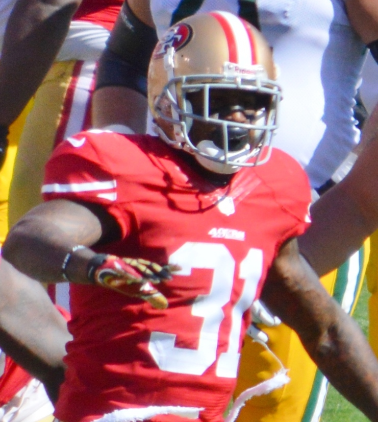 49ers safety Donte Whitner during the 49ers' season opener in 2013